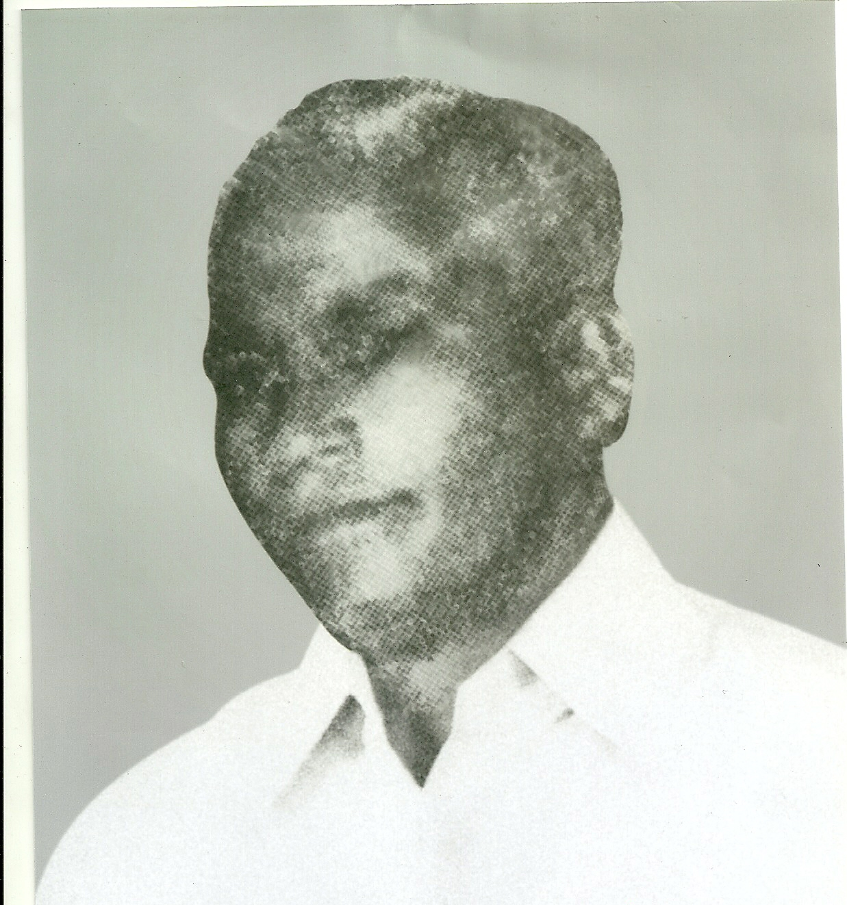 Late Dukkipati Nageswara Rao (1906-1960) by Raj Kosaraju on Wednesday, March 12, 2011 Dukkipati Nageswara Rao was an Indian independence movement activist from Krishna District. Rao was sent to prison many times. He also met Mahatma Gandhi in his home town Peyyeru about 15 miles from his village Nandamuru during the Quit India Movement in 1942. The Government of Andhra Pradesh posthumously wanted to give him five acres of land and a Tamra Patra (Certificate) which was given in accordance with the struggle that he fought for the freedom against the British. But my grandmother Late Dukkipati Savitriamma humbly declined the offer. She used to remind us that my grandfather Dukkipati Nageswara Rao fought against the British for a free India struggle and not for any monetary compensation. Apart from serving in several prisons in Andhra Pradesh he also had the privilege of meeting Late Sarvepalli Radhakrishna during the independence struggle. He was also in many noteworthy prisons like Bellary Jail and Vellore prisons during the freedom struggle.